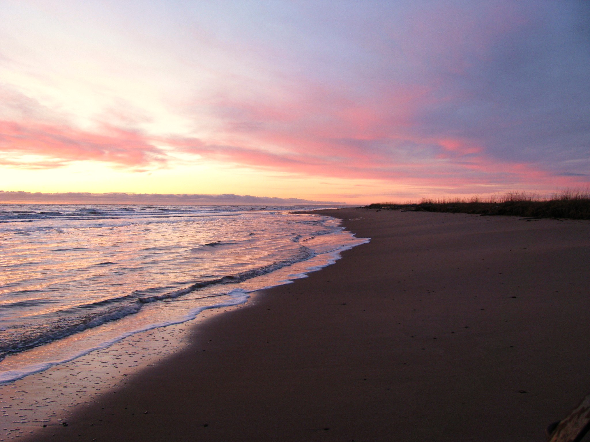 Sunset on the bank of the Terek (Bank on the White Sea)